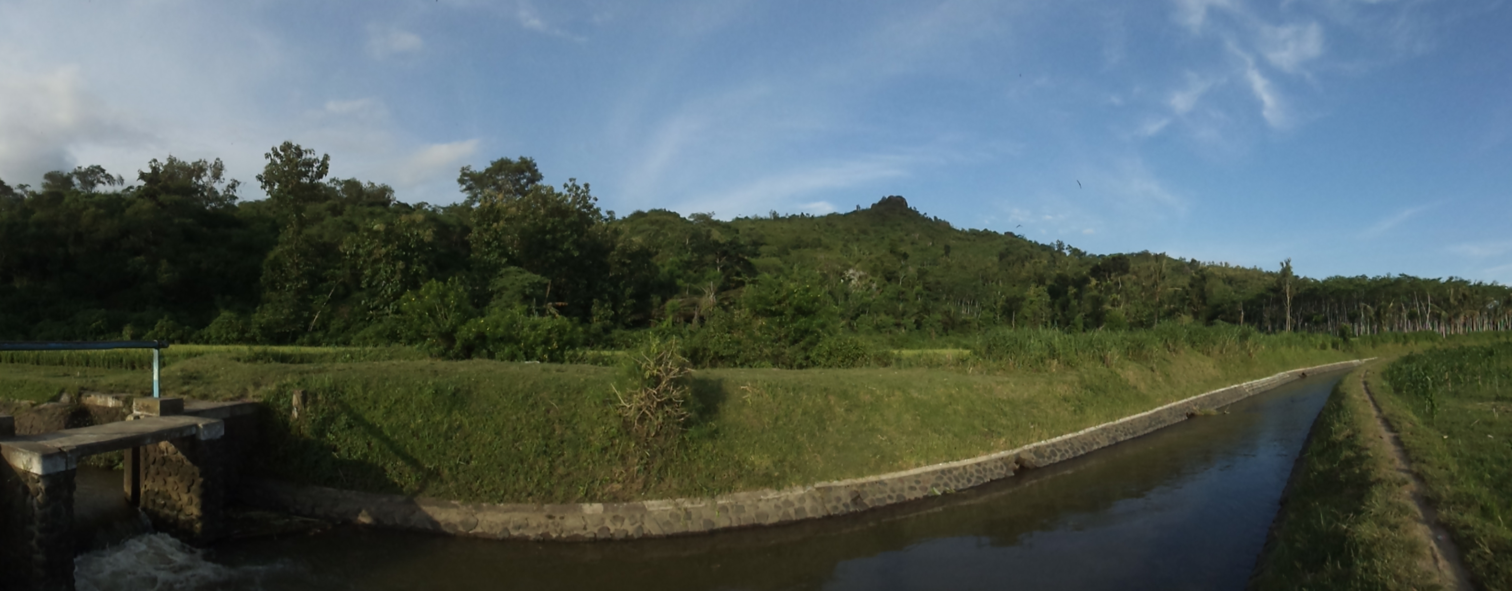 Photographer By Much Nesha AR